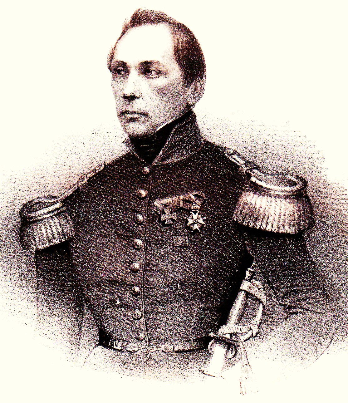 Majoor Sorg